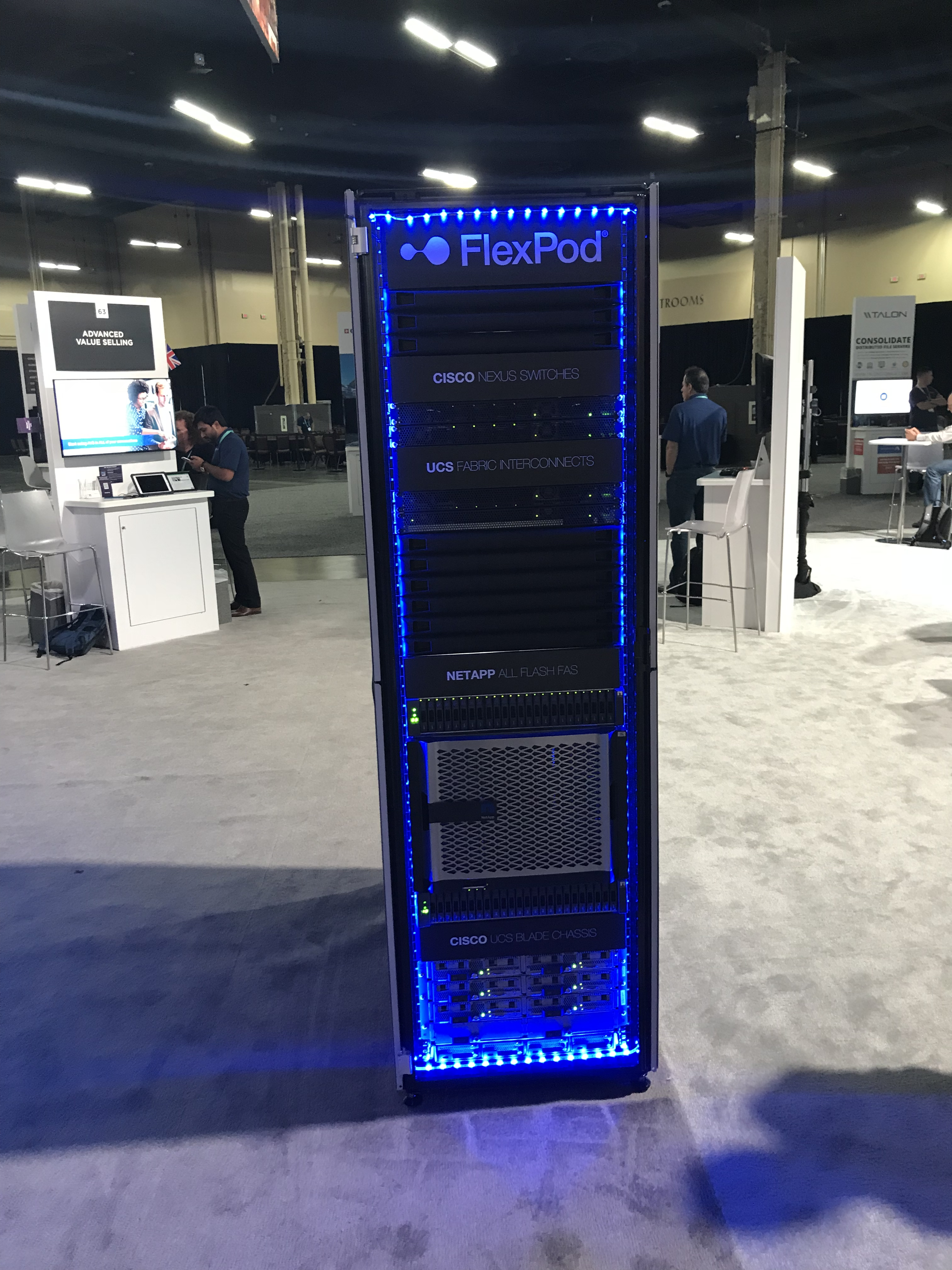 NetApp Storage, Cisco UCS servers and Cisco Nexus switches